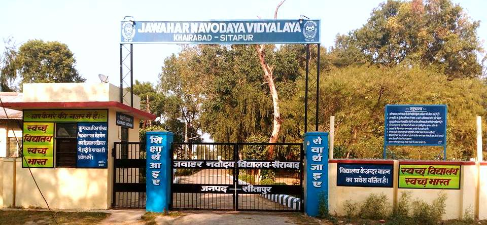 JNV khairabad is achool in Sitapur district